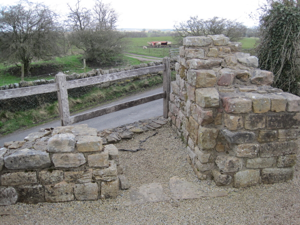 Site of Roman Signal Station, Hadrian's Wall near Bankshead